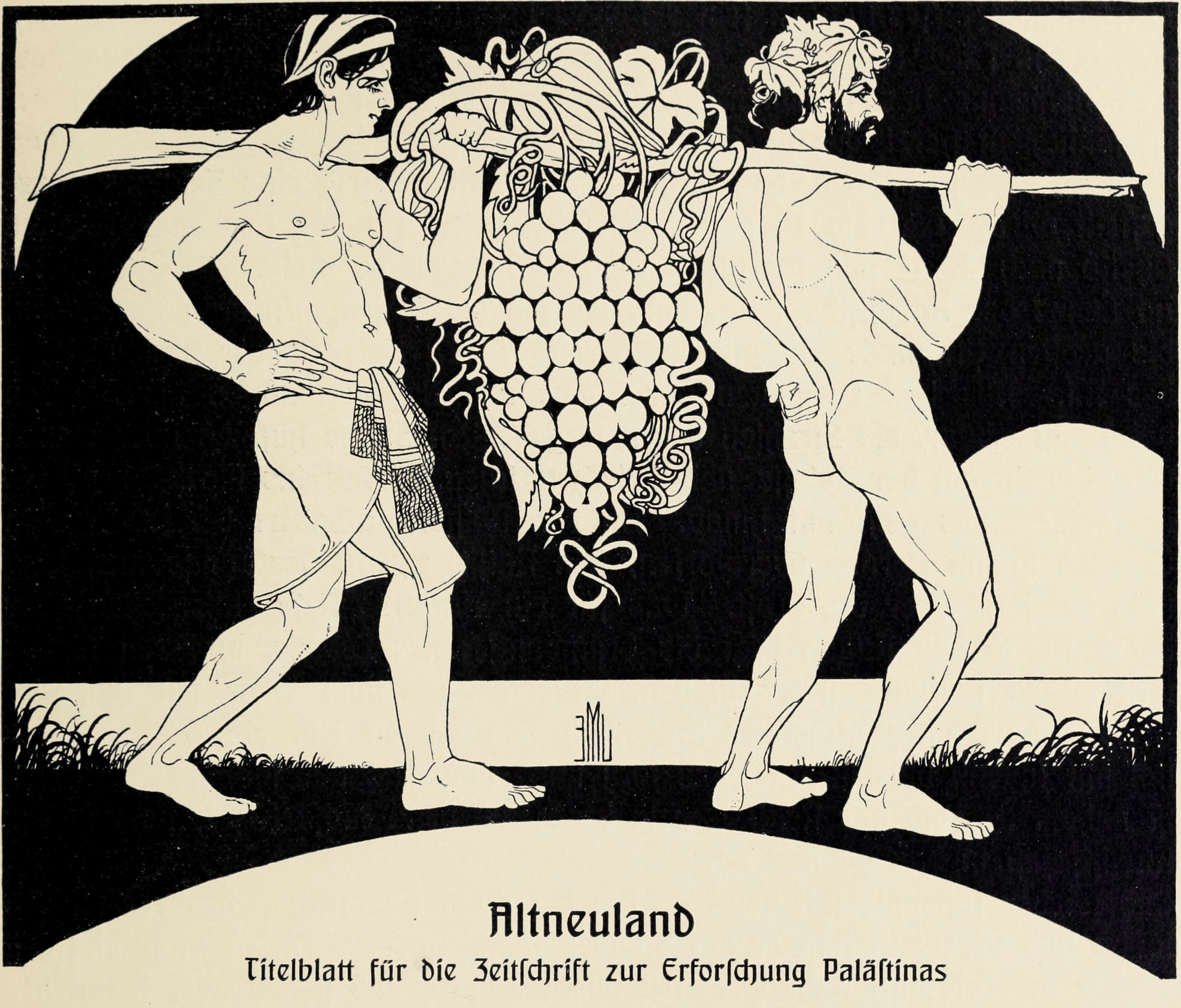 Altneuland. Title page for the Zeitschrift zur Erforschung Palästinas (Journal for Research about Palestine).